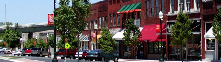 Picture of downtown Dalton,GA